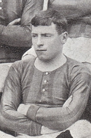 Ralph Brett while with Brentford FC in 1903/04